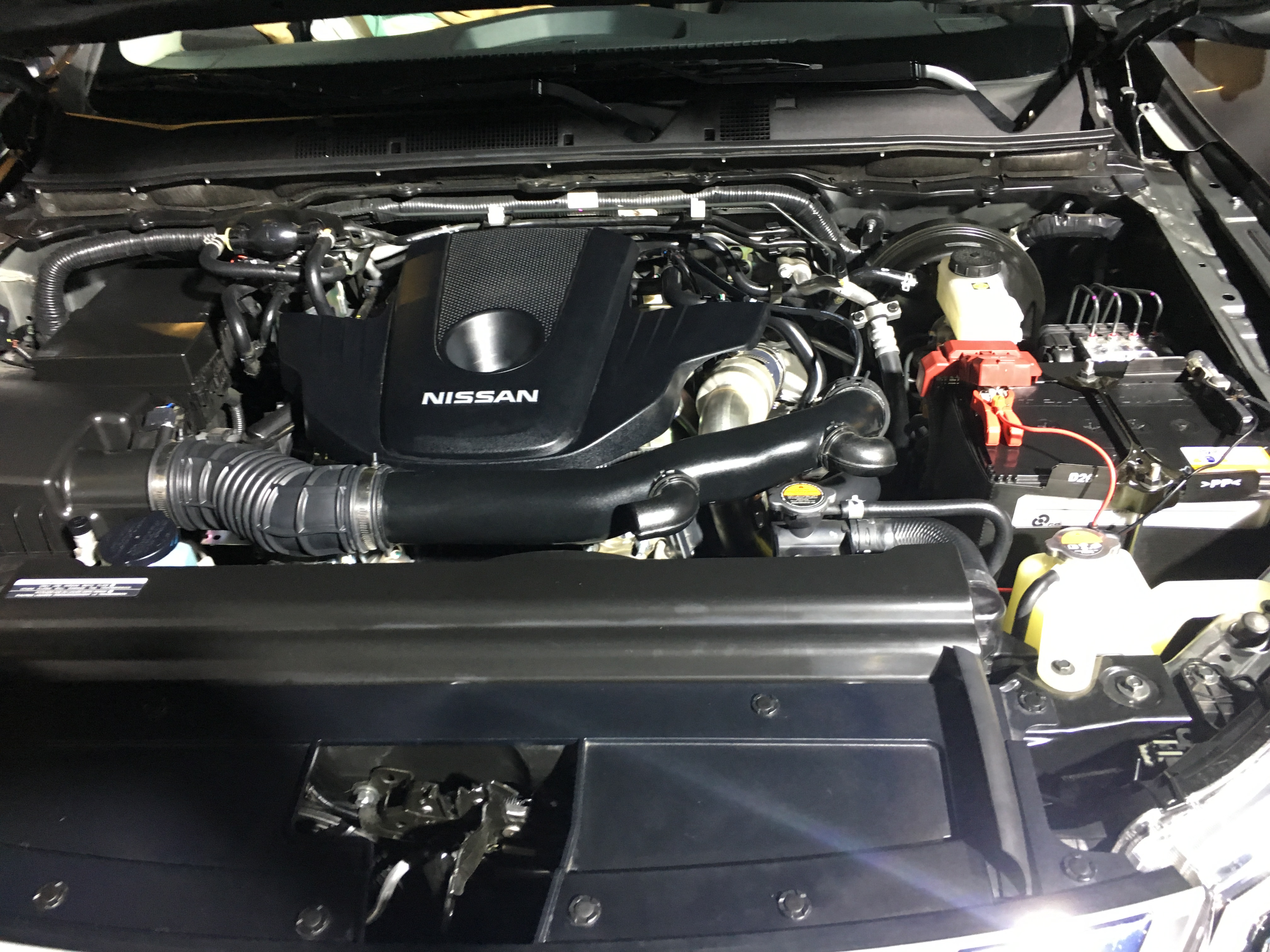 All variants of Nissan Terra in the Philippine Market is equipped with a 2.5L Common Rail Diesel with Variable Geometry System.